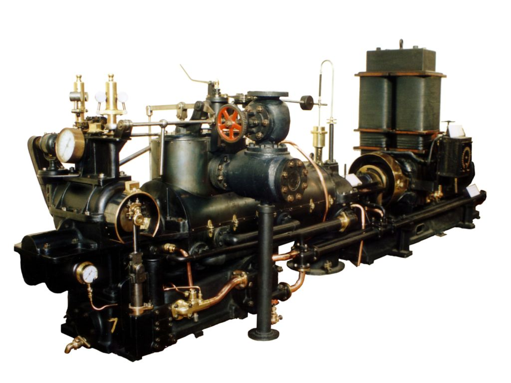 Parsons Steam Turbine Generator Set 'Steam Turbine, Generator & Switchboard.' Made by Clarke, Chapman, Parsons & Co., Gateshead Editing Undertaken: Levels, Unsharp Mask, background removed